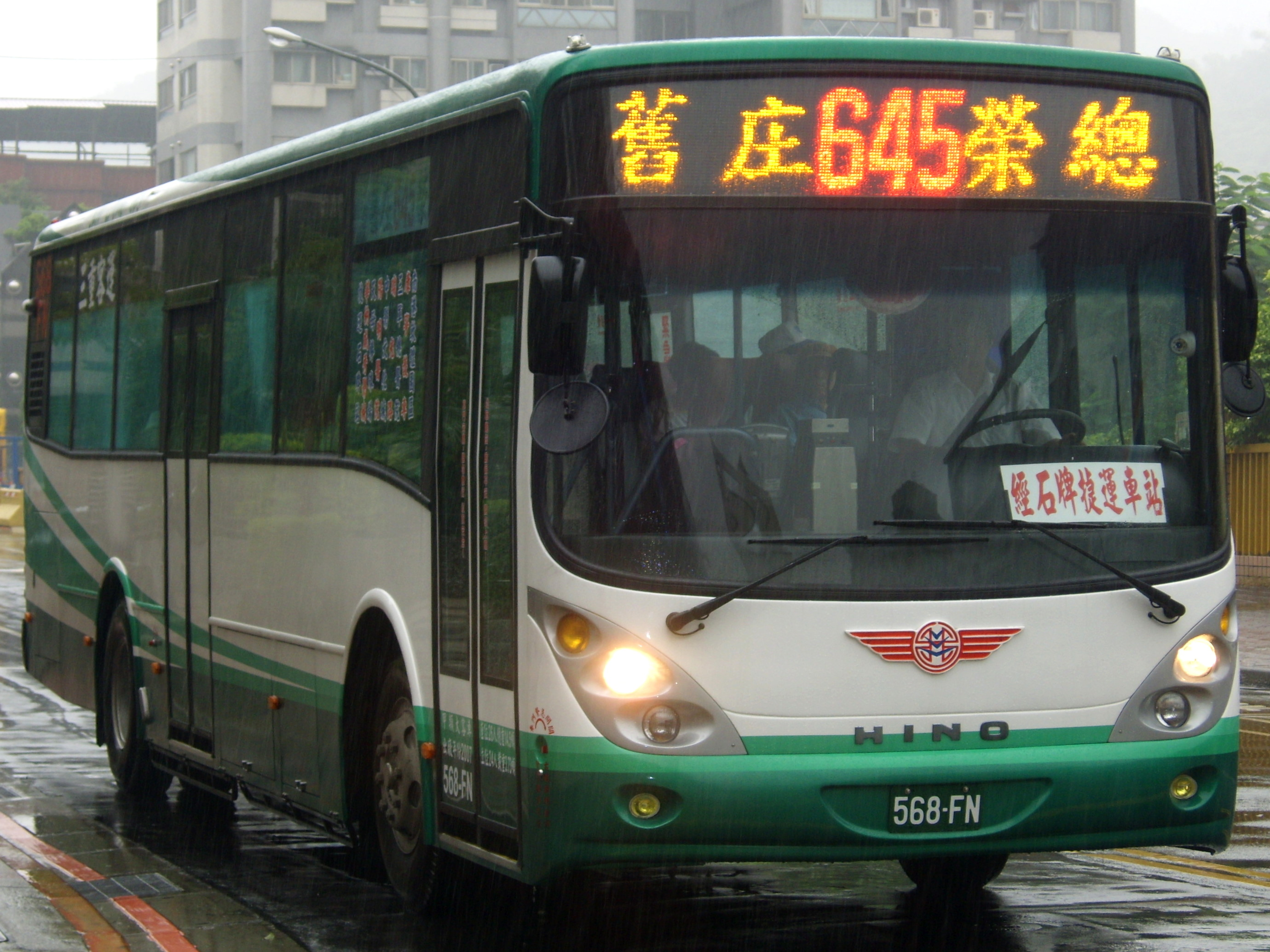 A brand new RK chassied us is constructed by GOA Body Co., Ltd. and owned by Sanchung Bus Co., Ltd.